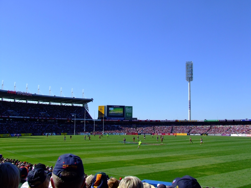 AAMI Stadium during an AFL game between Adelaide and Essendon under clear skies. April 1 2007.